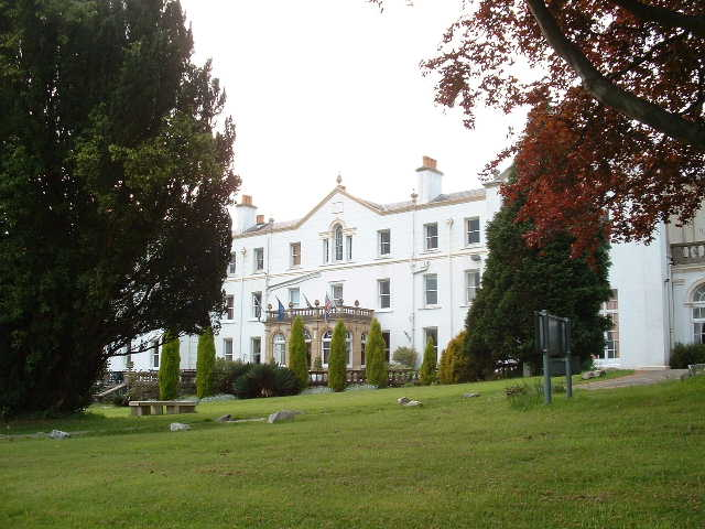 Court Colman Hotel. North of the railway near the top of the square. The building has a long history and is often used for period filming, yet the hotel also boasts modern themed rooms and an Indian restaurant.